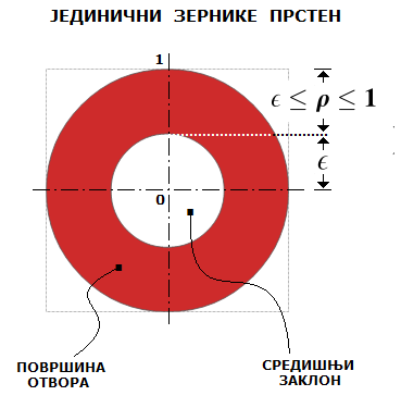 ЈЕДИНИЧНИ ЗЕРНИКЕ ПРСТЕН